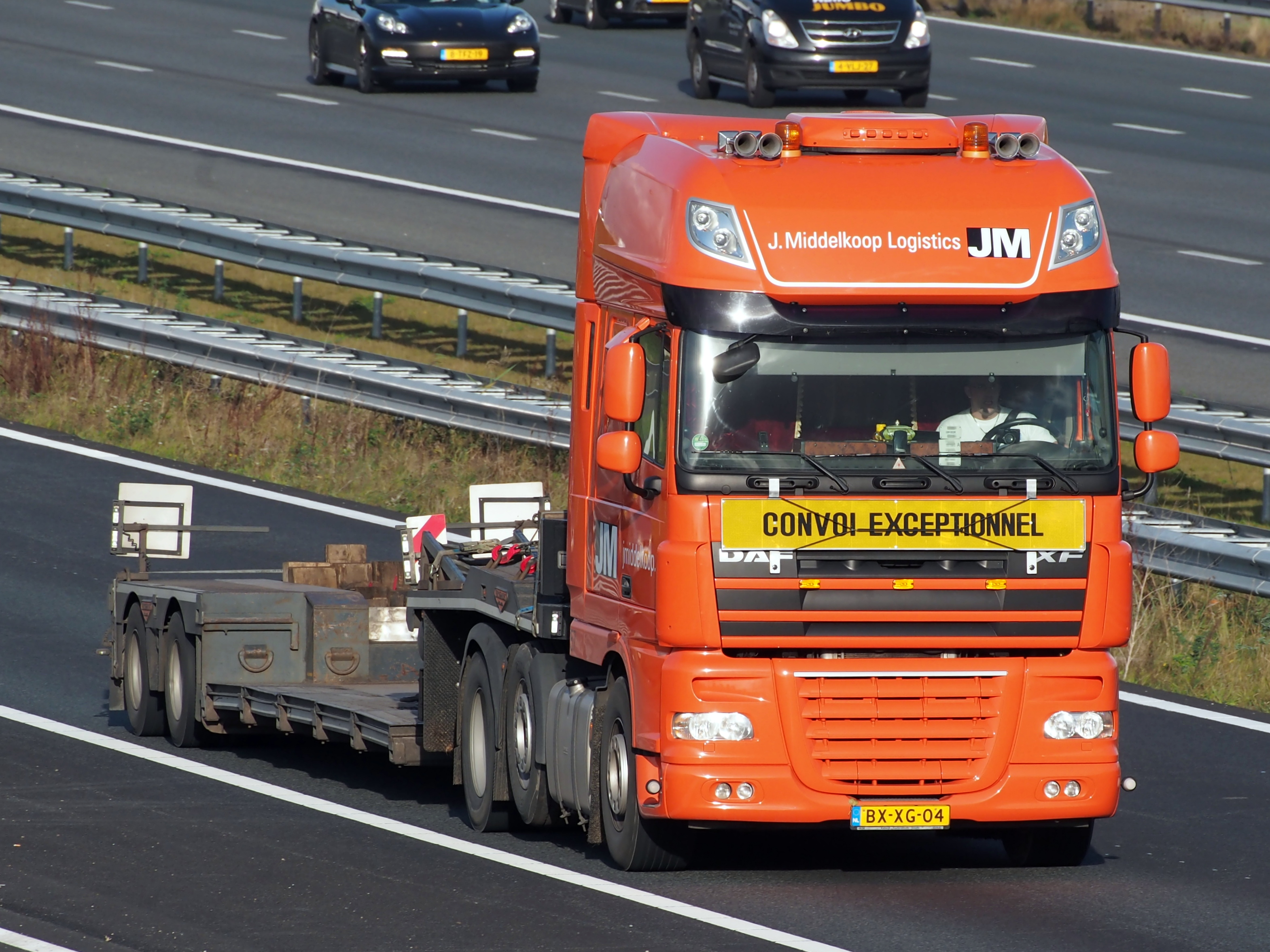 Photographed on the A4 motorway near Hoofddorp, The Netherlands.